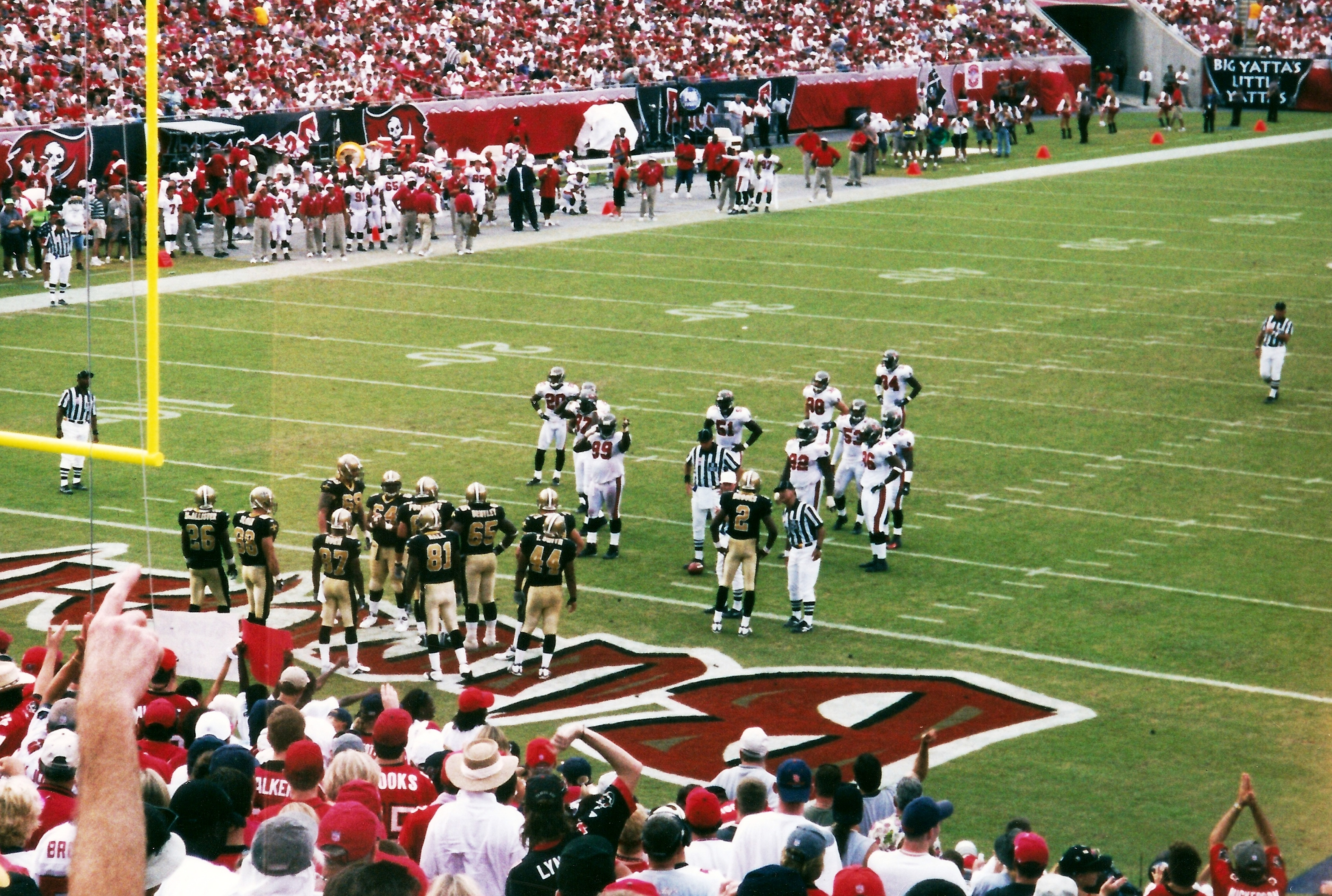 Tampa Bay Buccaneers vs. New Orleans Saints. Raymond James Stadium September 8, 2002